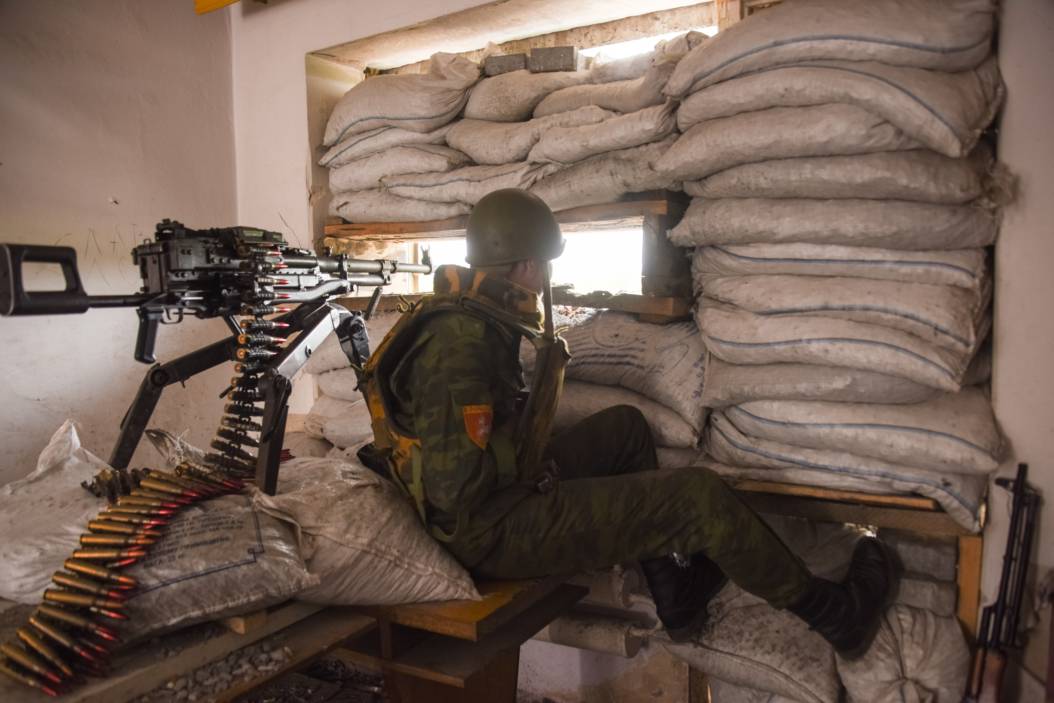 A Russia-backed rebel looking though firing port at his position near Donetsk, Eastern Ukraine, May 26, 2015.